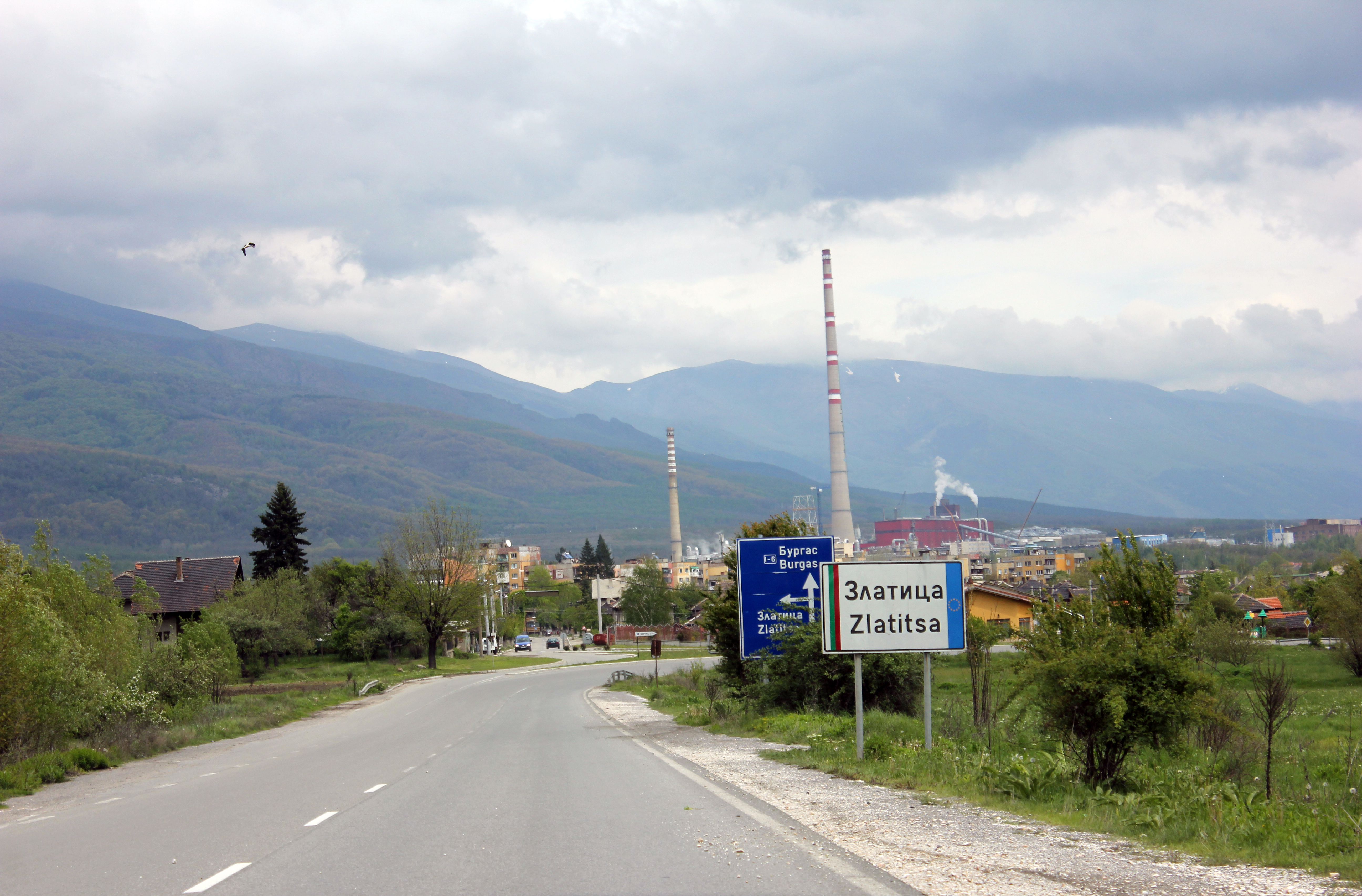 View of Zlatitsa on entering the town from Sofia